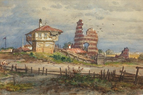 The ruins near Kula by Felix Kanitz